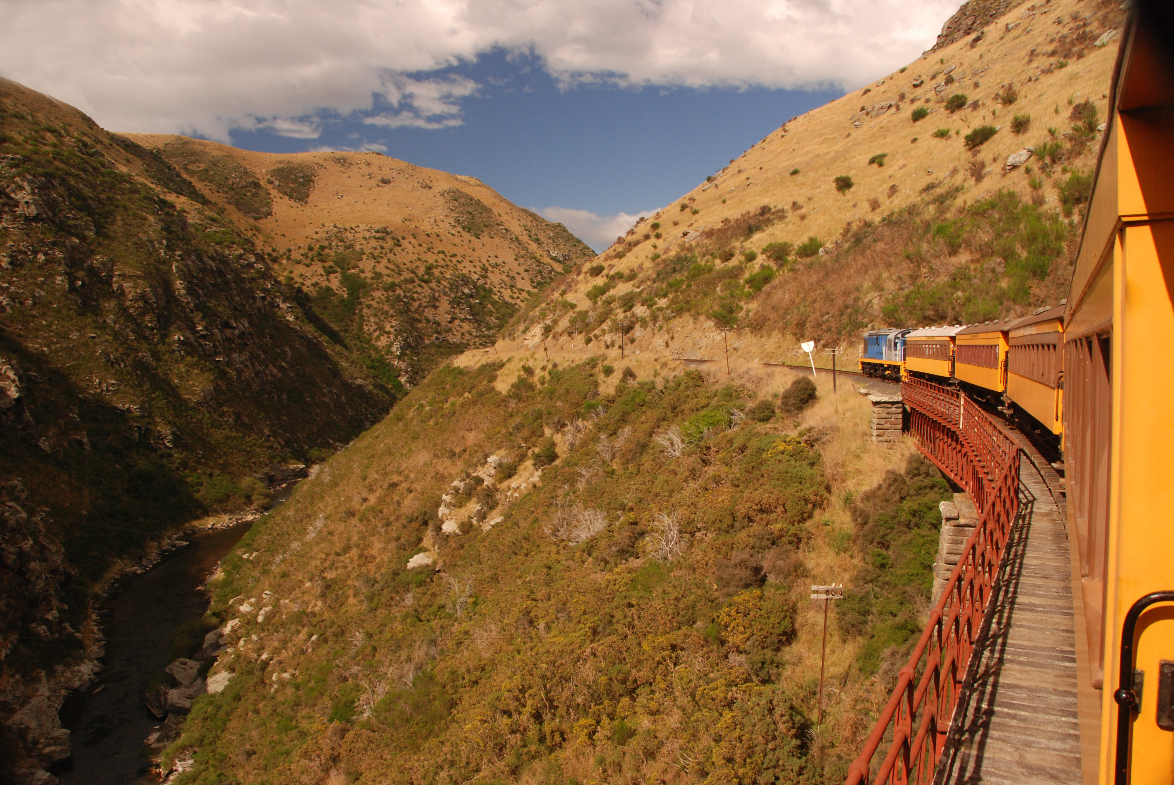 Taieri Gorge Railway photo by Mike Goren